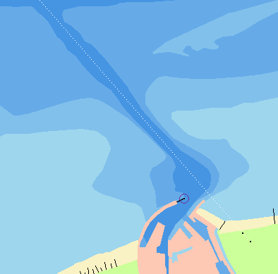 Zeebrugge (old situation) with the leading lights and the two lighthouses (current out of use)